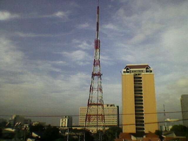 The ABS-CBN Transmitter Tower, viewed from the MRT Quezon Avenue Station